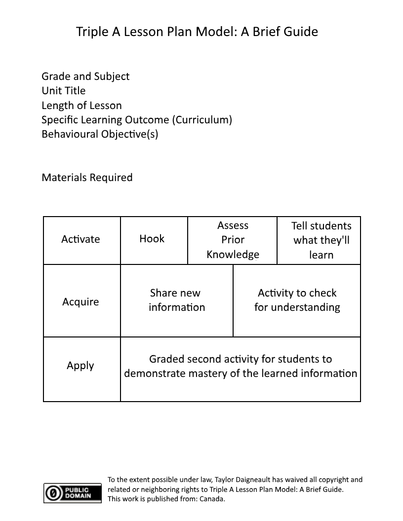 A graphic that lists all elements required to write a triple a model lesson plan